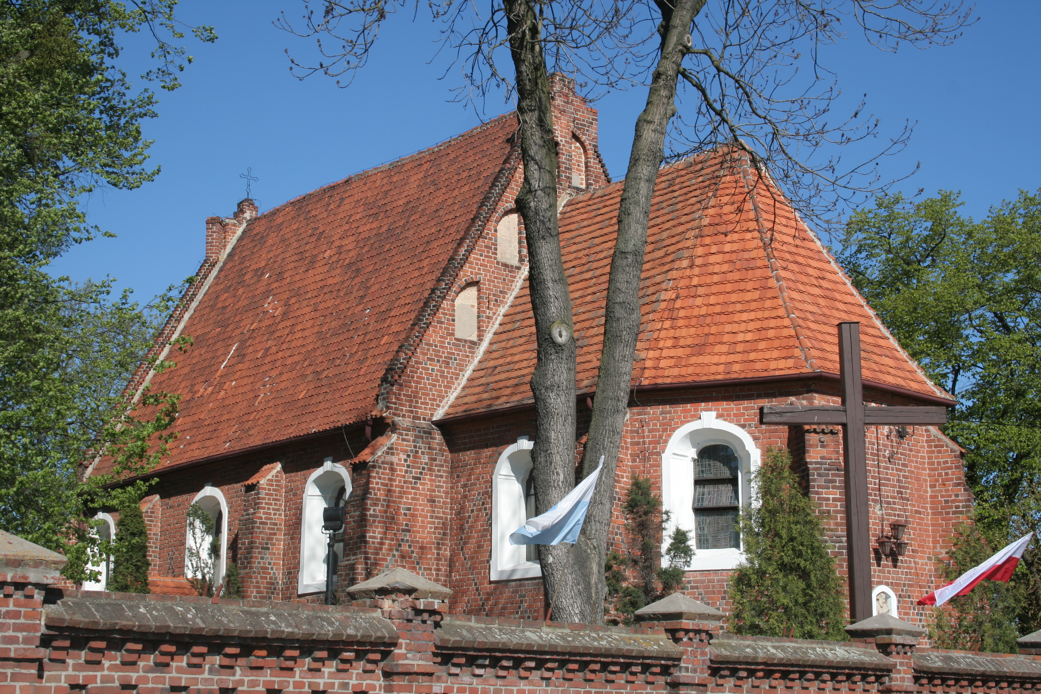 Mogilno, church of St. James